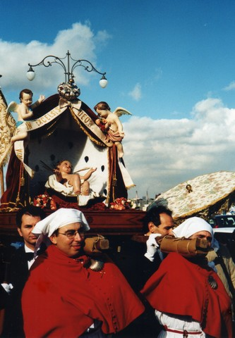 Procession of Child Jesus on Christmas morning Taranto